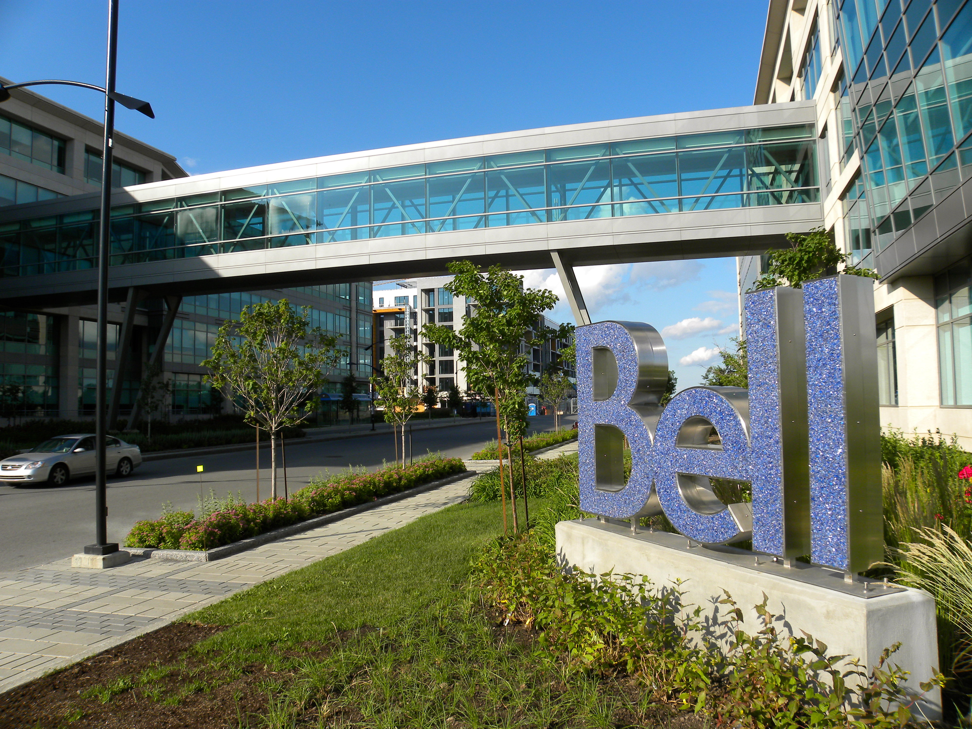 We headed out to Île des Sœurs (Nun's Island) where Bell's new headquarters sits on the northern tip.